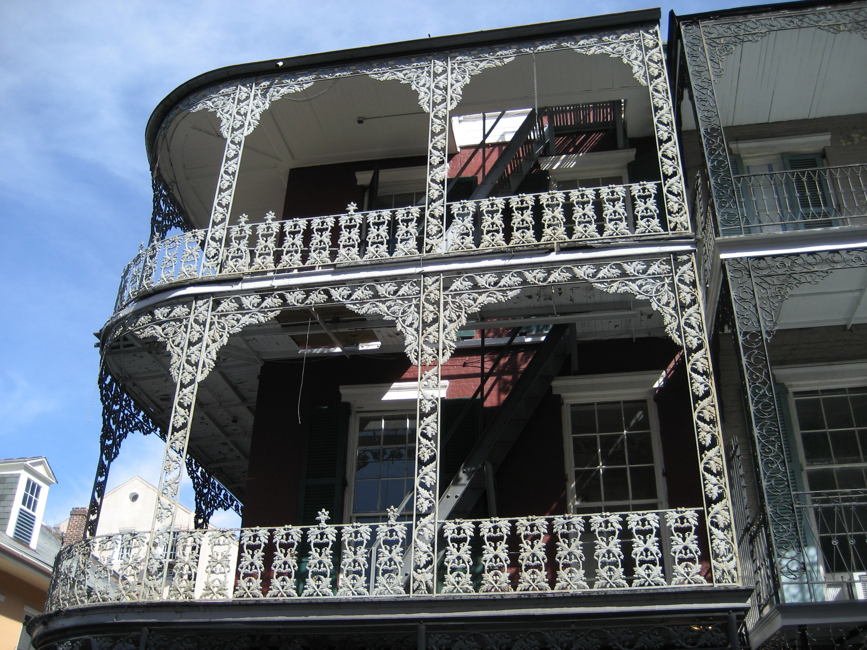 French Quarter, New Orleans, Louisiana